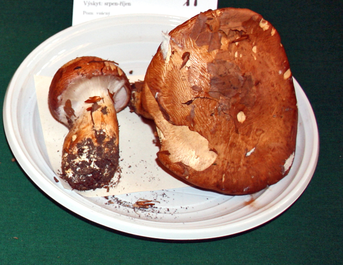 Cortinarius balteatocumatilis on Prague international mushroom exhibition 2008, Czech Republic